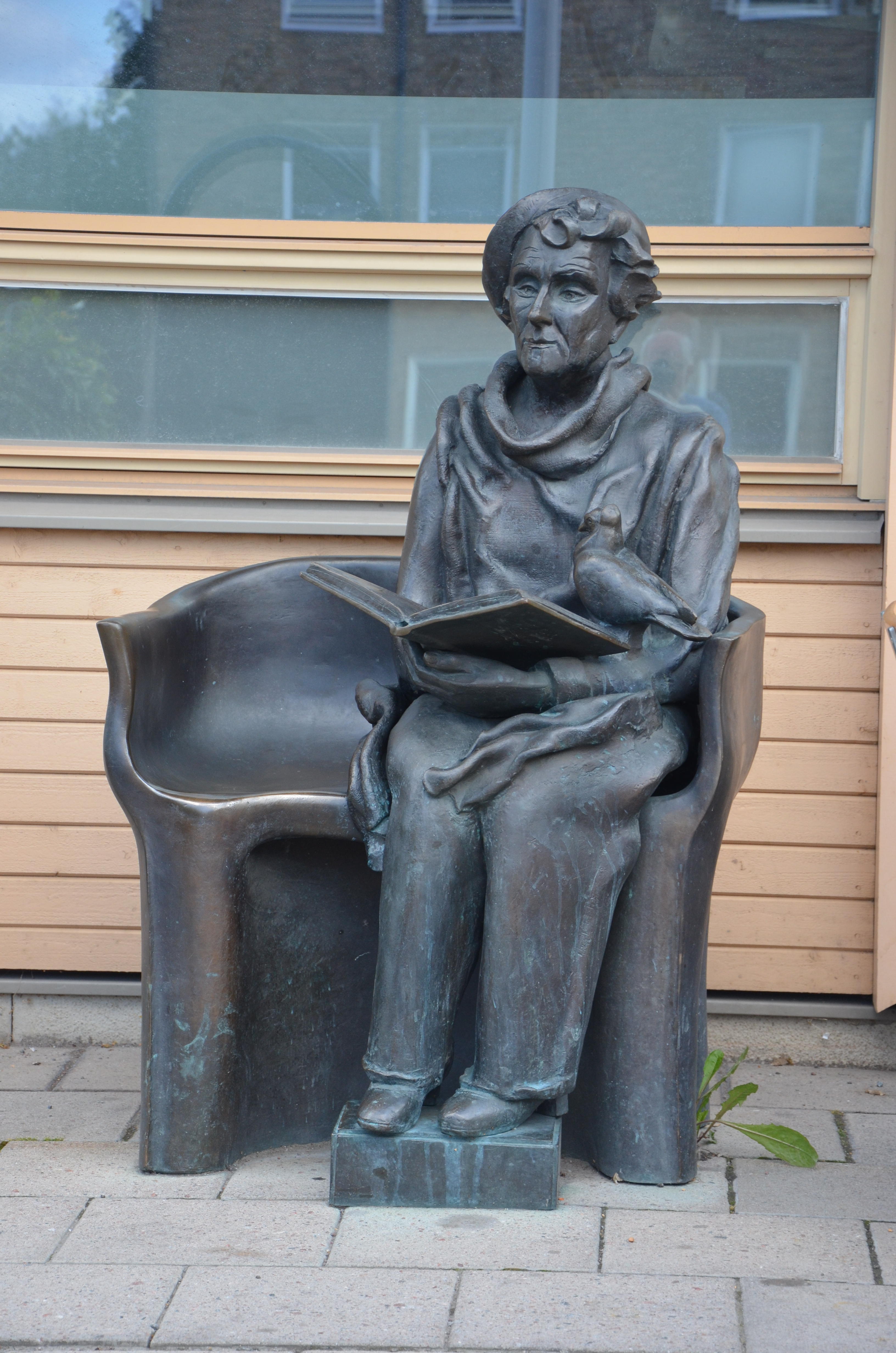 Hertha Hillfon' s sculpture of Astrid Lindgren, outside Astrid Lindgrens barnsjukhus, Karolinska Universitetssjukhuset, Solna, Sweden